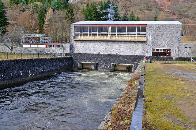 Lochay hydro-electric power station tailrace The power station in the background (output 47MW) is in the next square NN5435. The water comes from the headpond at Stronuich in Glen Lyon by tunnel and pipeline.